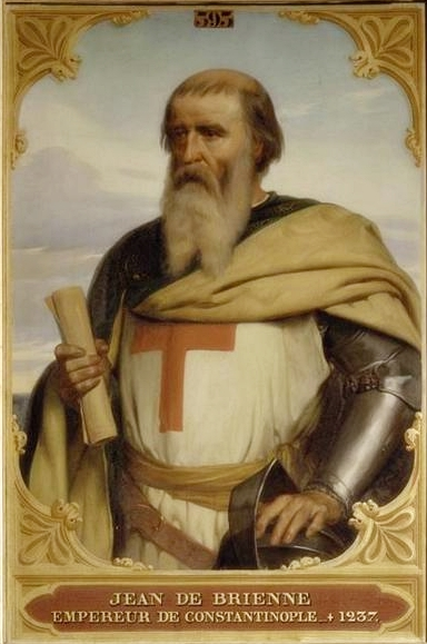 John I of Brienne, King of Jerusalem and Emperor of Constantinople